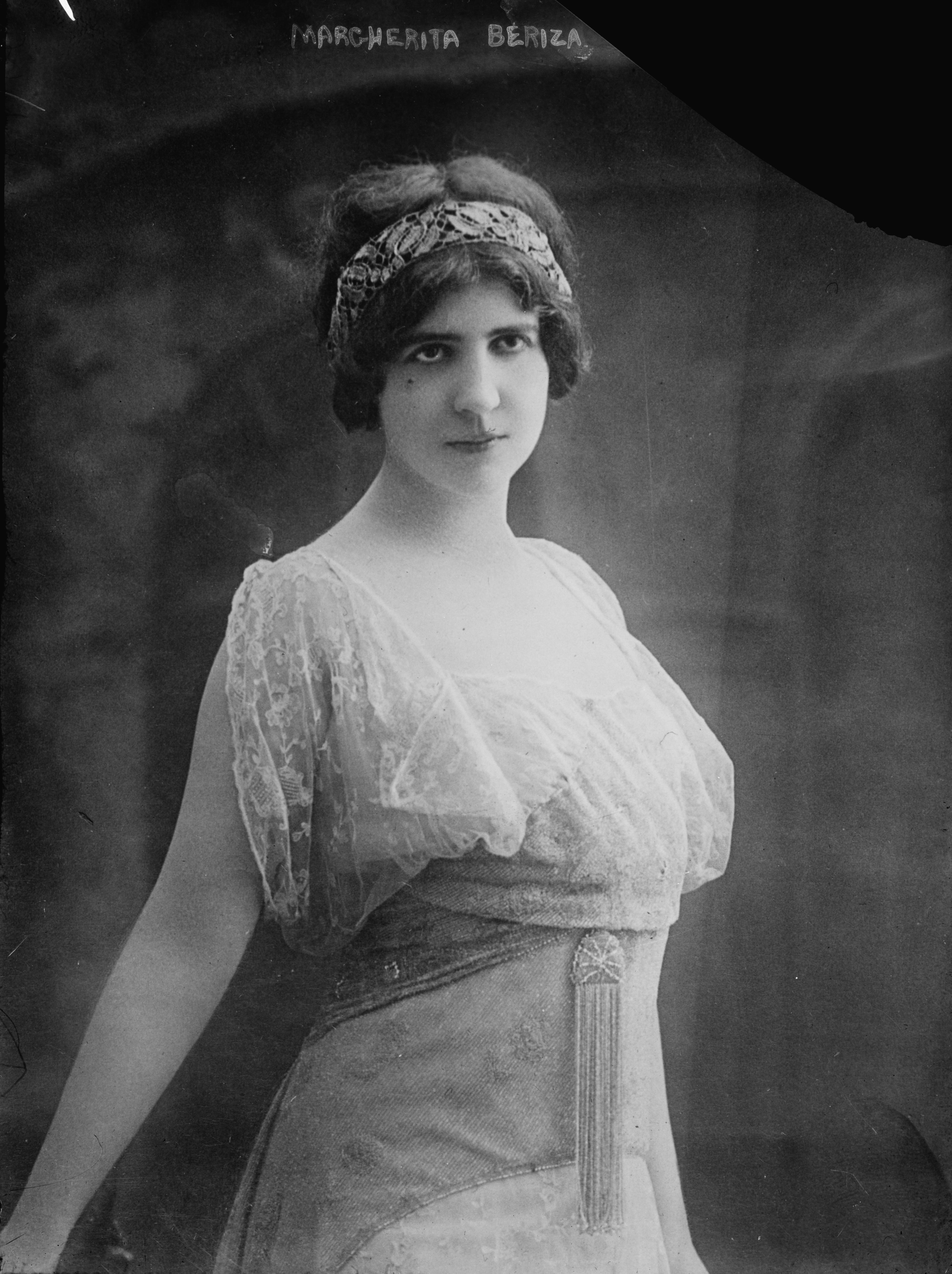 Margherita Beriza